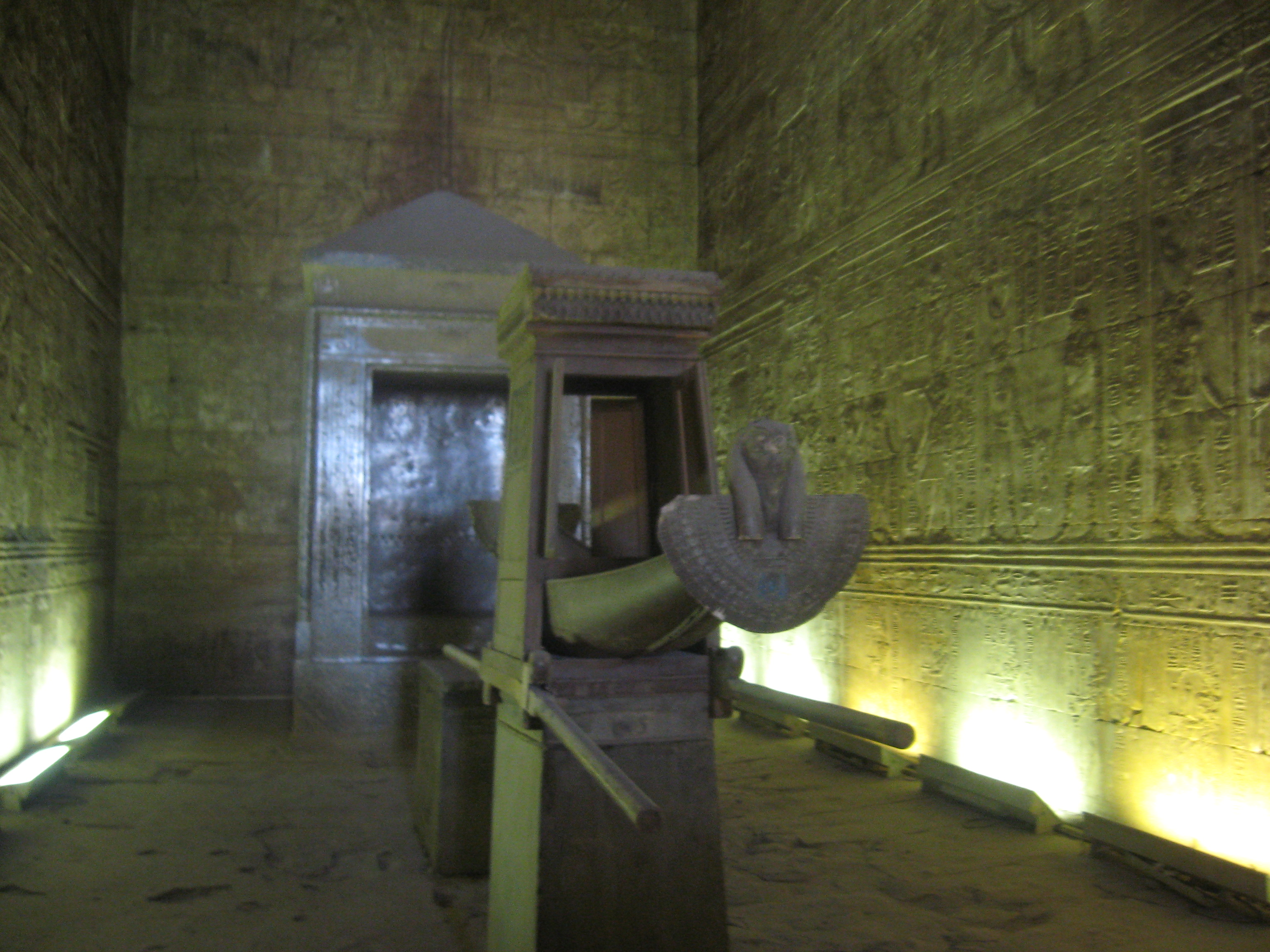 Monument inside_the Temple of Horus Edfu